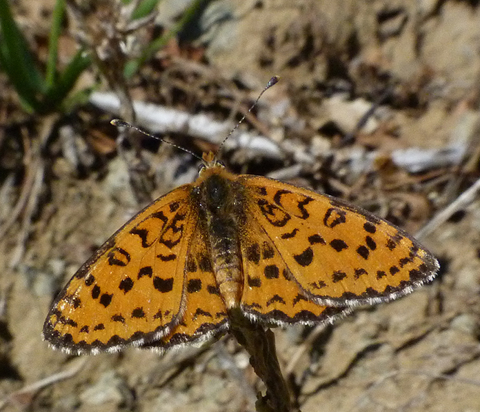 Imago near Naens, Catalonia.